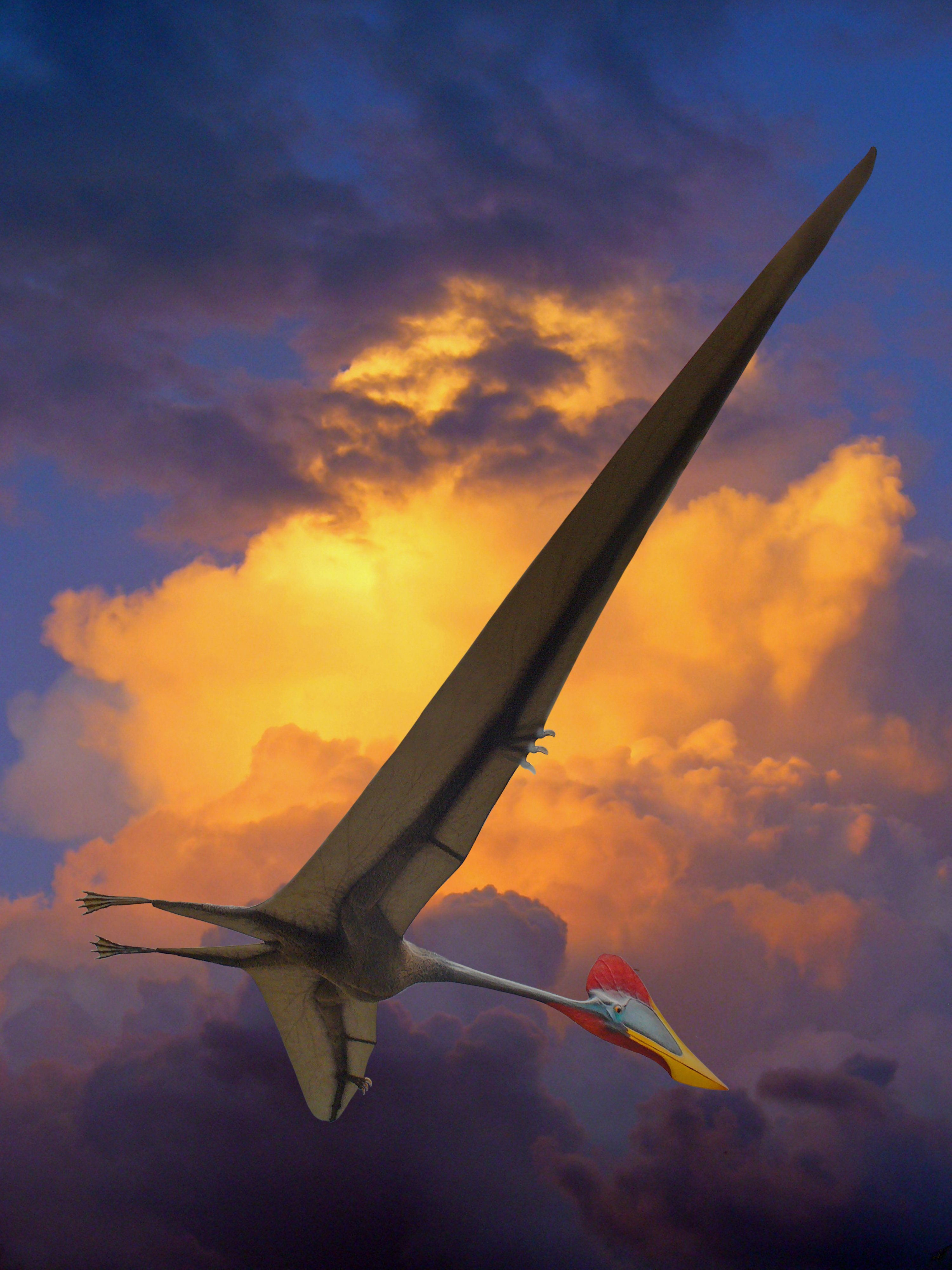 Quetzalcoatlus northropi, Azhdarchidae; Model in life size with a wingspan of 13 meters based on fossils from Texas, USA; Staatliches Museum für Naturkunde Karlsruhe, Germany. Backgroud changed.